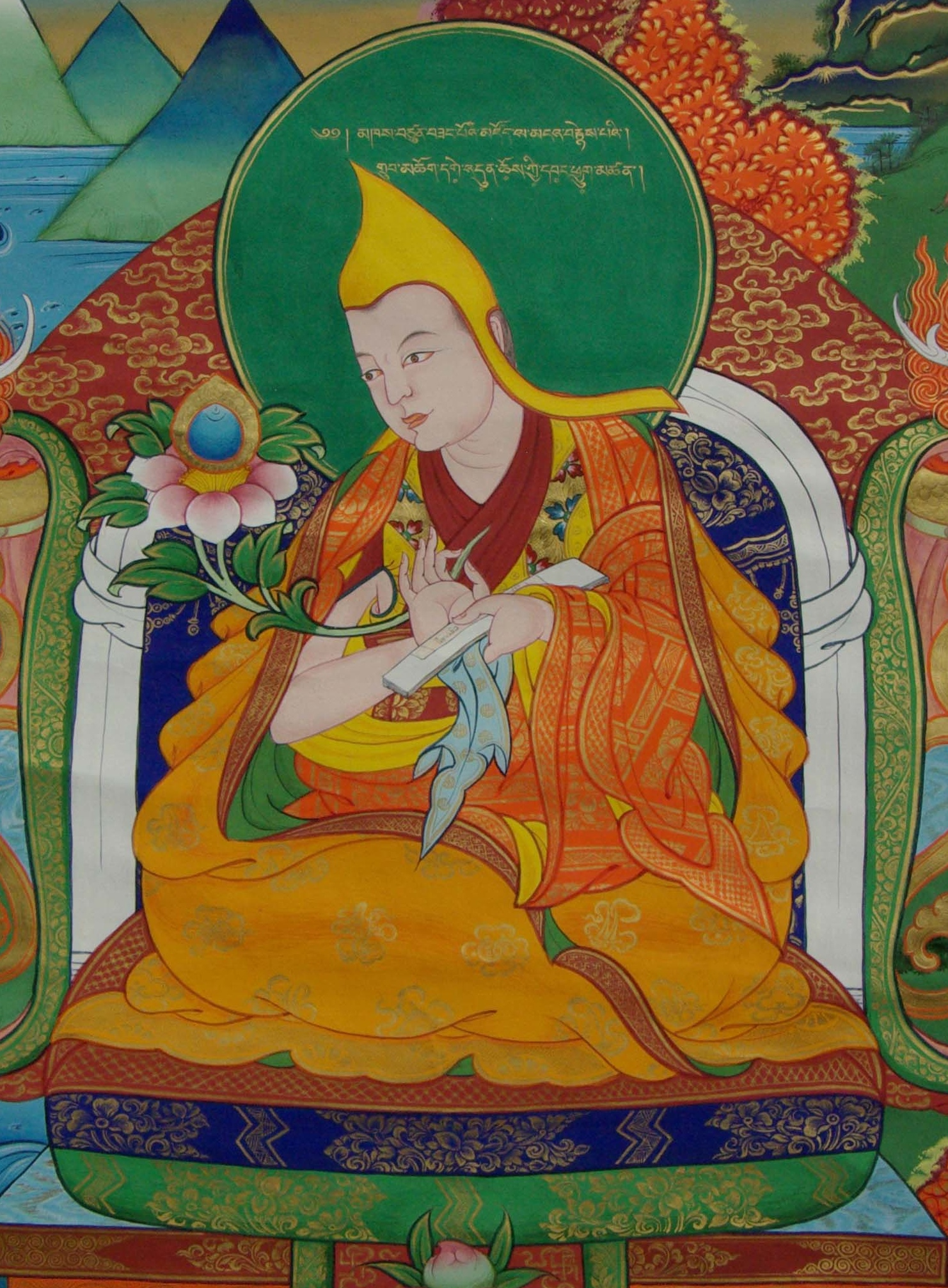 The Sixth Kirti, Gendun Chokyi Wangchuk b.1773 - d.1796